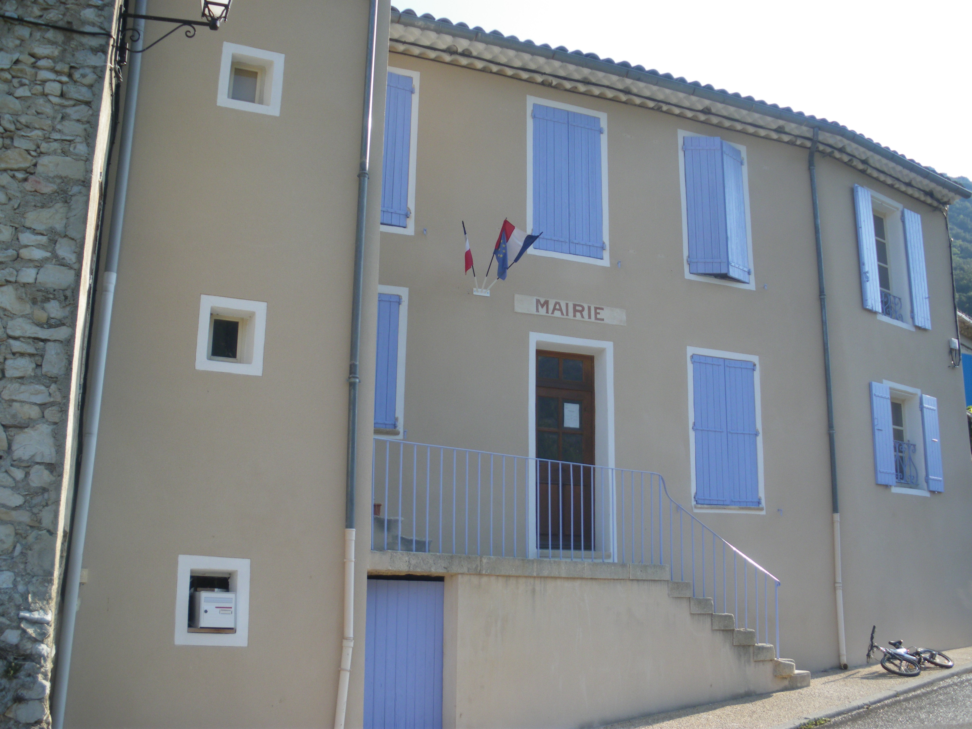 Sant Léger du Ventoux town hall, Vaucluse, France